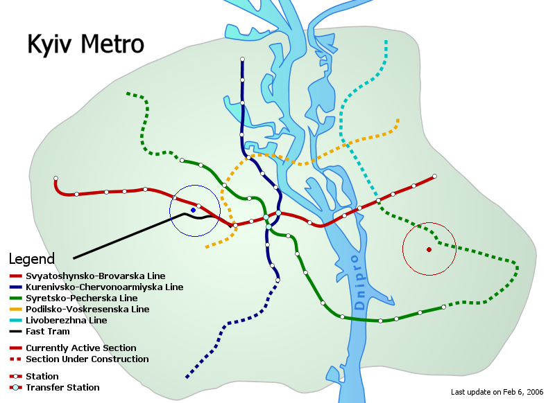 Aprroximation of the location of the new Darnytsia Railway Station in Kiev, Ukraine. Drawn horribly by User:DDima. Please make location more correct if you can... Based on :Image:Kiev metro map a3.png by User:mno.